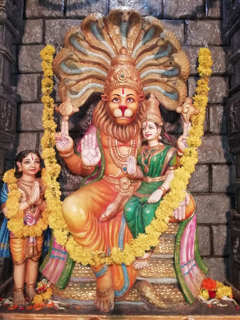 This photo has been taken in the country: India